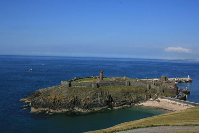 St. Patricks Isle Photograph shows Peel Castle on St. Patricks Isle. Fenella Beach and Peel Breakwater. Photograph taken from Peel Hill.